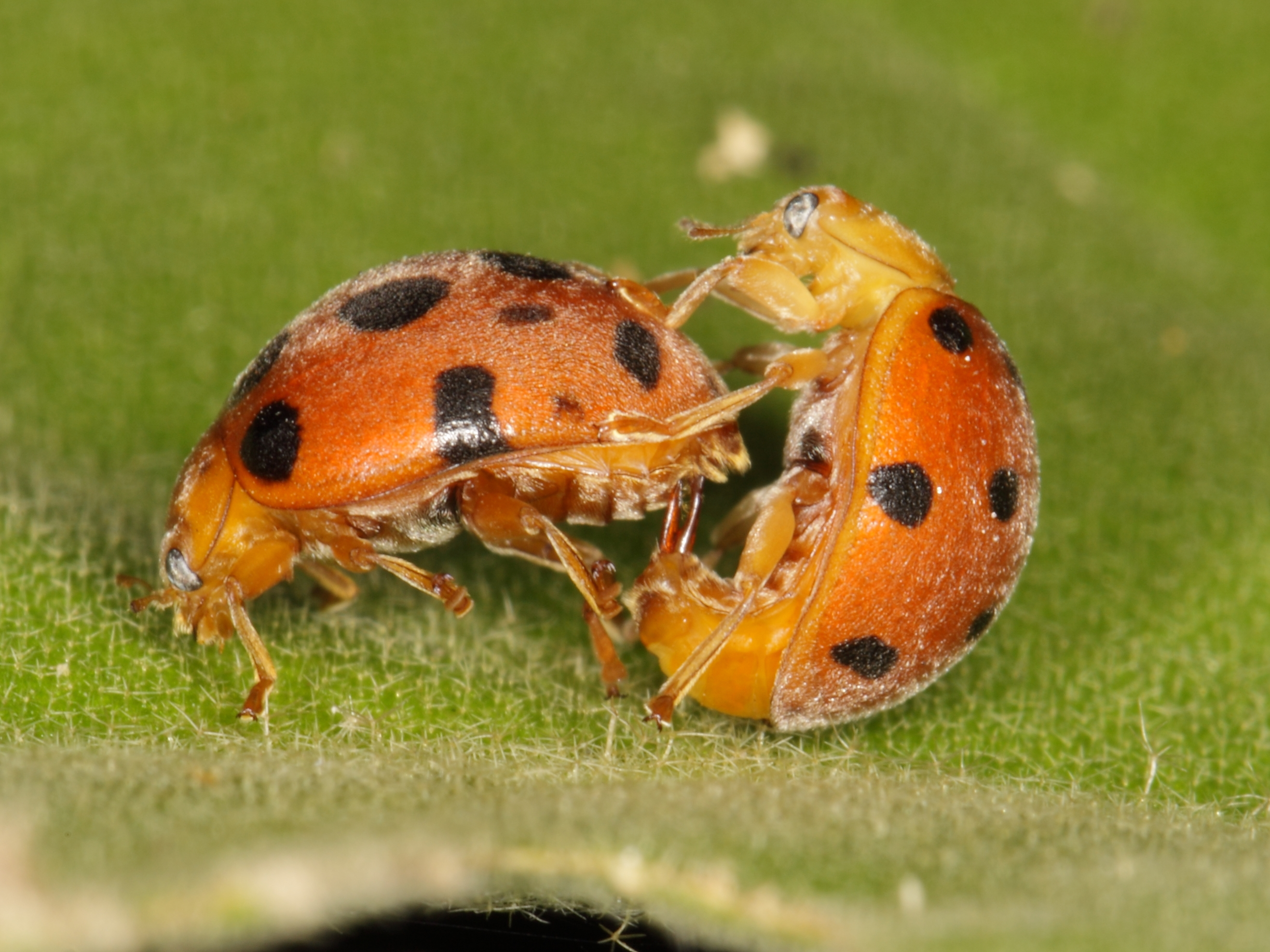 Epilachna sp. mating, Indonesia, W-Java, 10 km S Tangerang: BSD (Kampung)